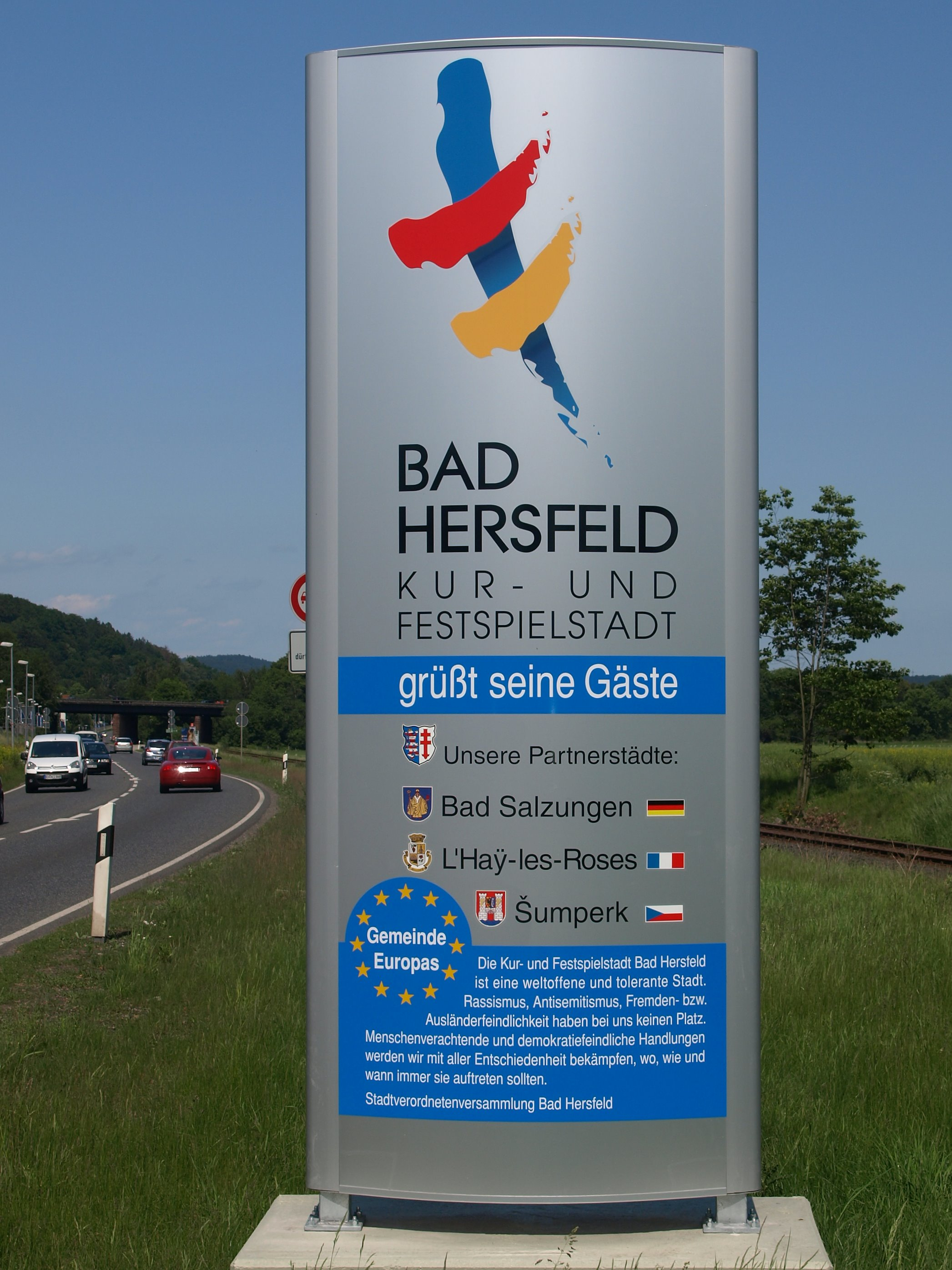 New greeting stele at the entries of the town Bad Hersfeld, from 2009